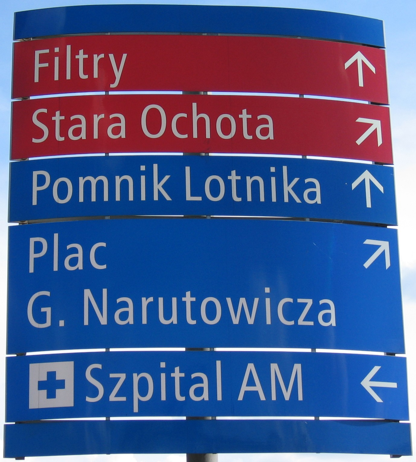 City Information System direction table, Warsaw, Poland